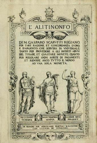 Title page of L'Alitinonfo by Gasparo Scaruffi, published by Hercoliano Bartoli in Reggio d'Emilia